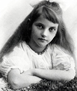 Anne-Marie Ingeström, the real Madicken.